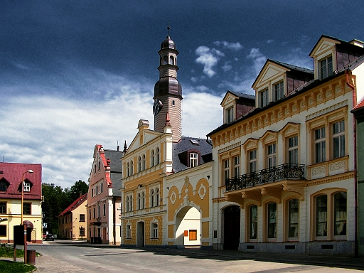 Townhall of Chrastava (built 1646)